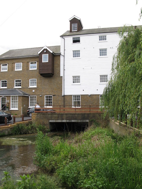 The converted Old Mill, Bexley, Kent.